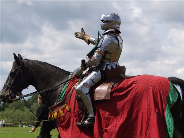 Mounted knight at the Tewkesbury Medieval Festival